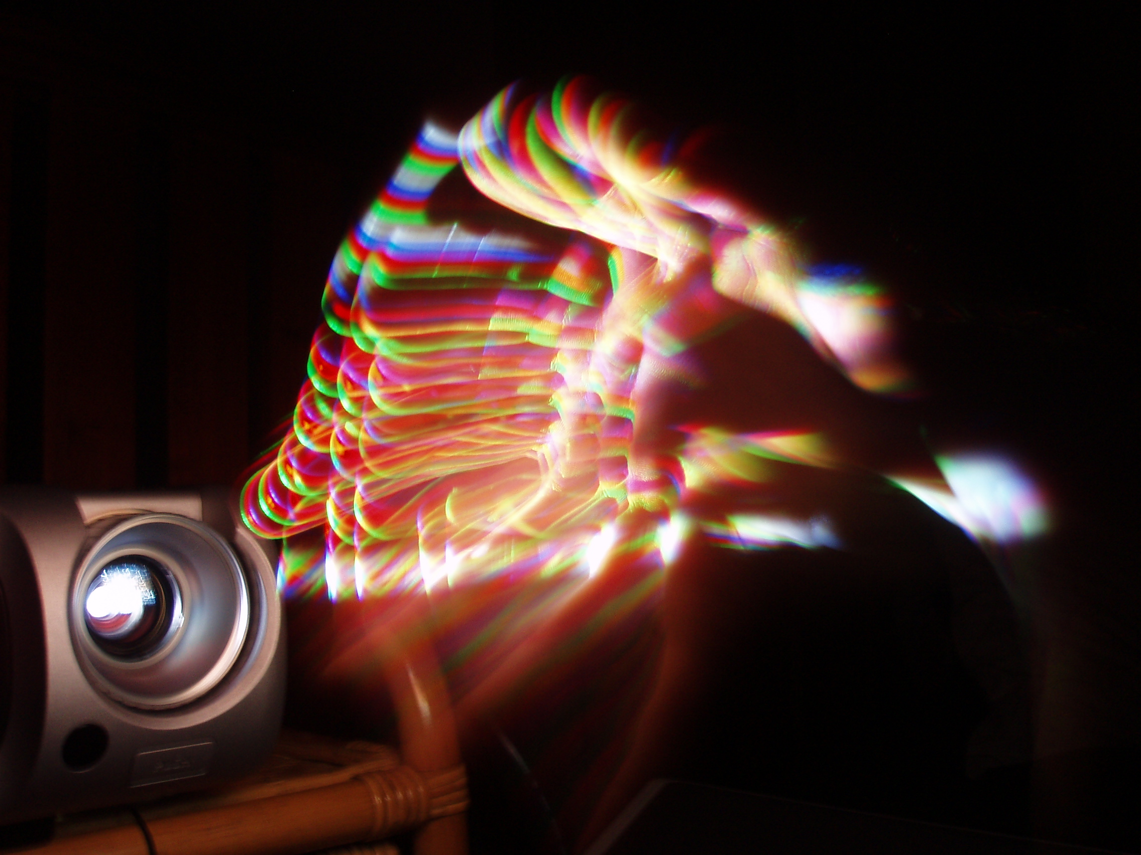 Photo taken of a hand moving quickly past a DLP projection, demonstrating the rainbow effect of a DLP projector's colour wheel. (This is an Acer PD100) Author: Damien Donnelly